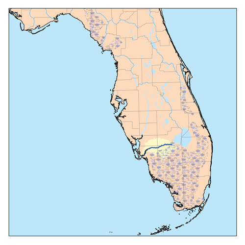 This is a map of the Caloosahatchee River watershed. I, Karl Musser, created it based on USGS data.